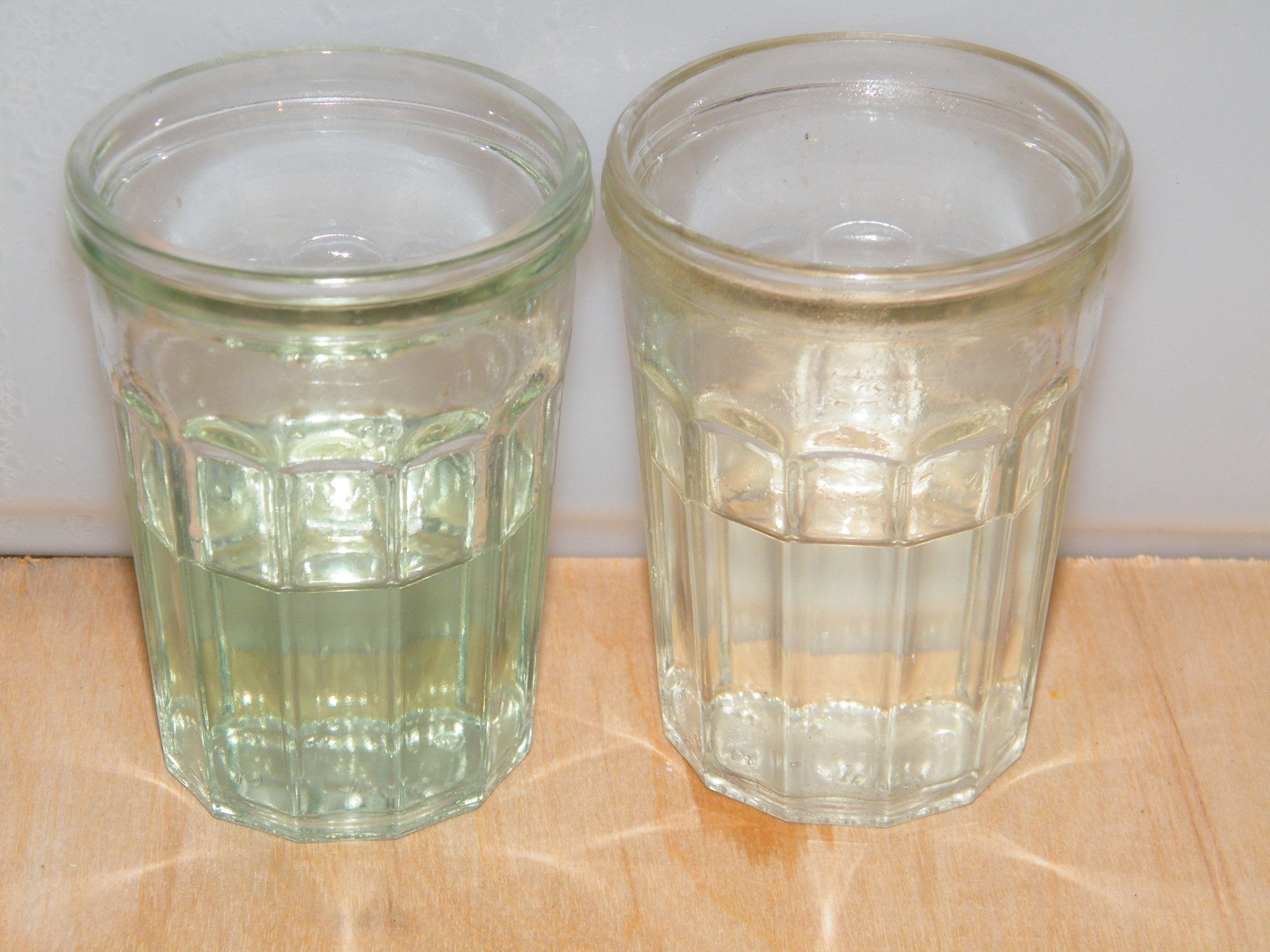 The ratio of 50 to 1 , the right side clean gasoline A - 92 gasoline A - 92 on the left with two-stroke oil blue